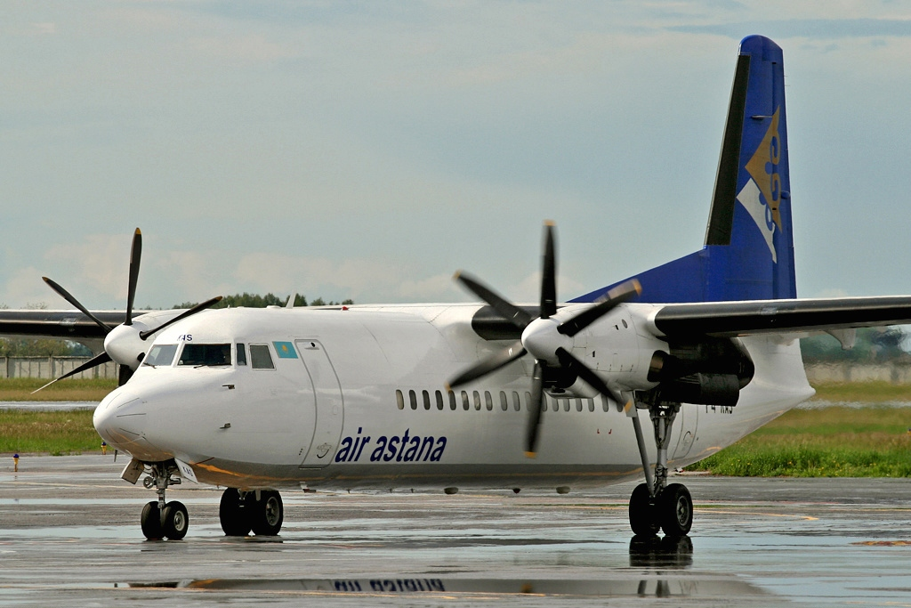 First flight to Astana. Ex-Andaman Air, Thailand.